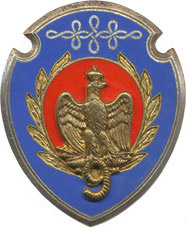 Badge 9th Regiment Hassard(France).